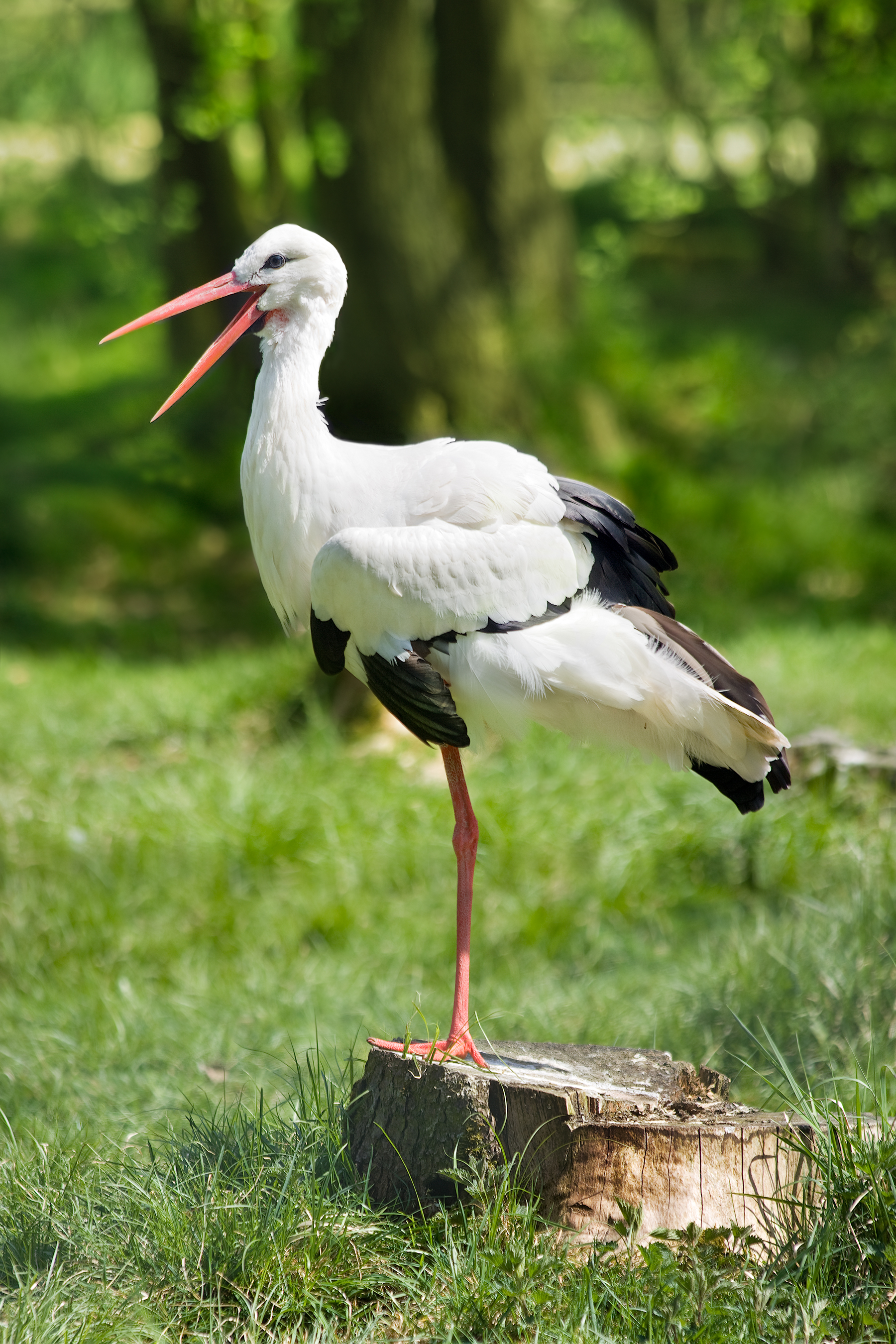 White Stork (Ciconia ciconia) Poing sanctuary, Germany